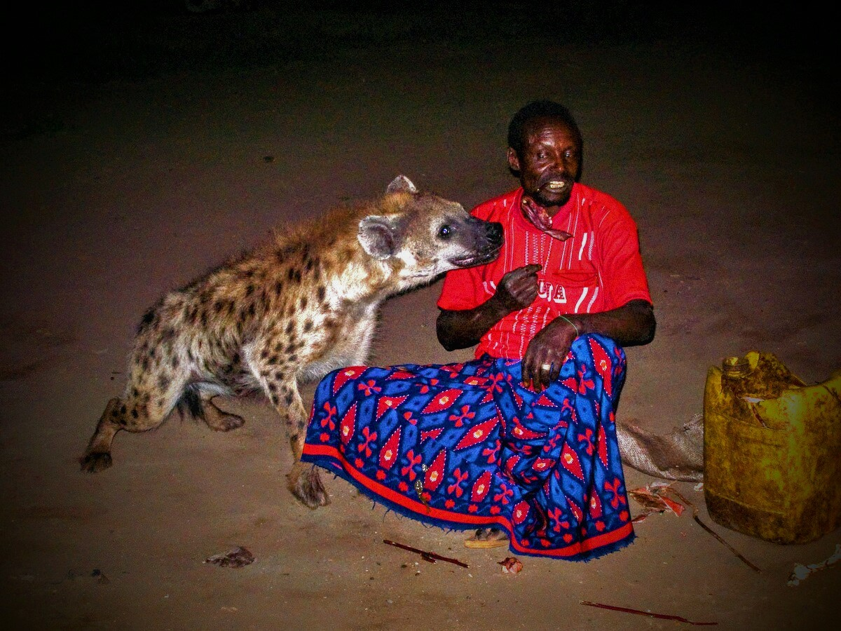 "Hyena man" Youseff Mume Saleh feeds a hyena in Harar.